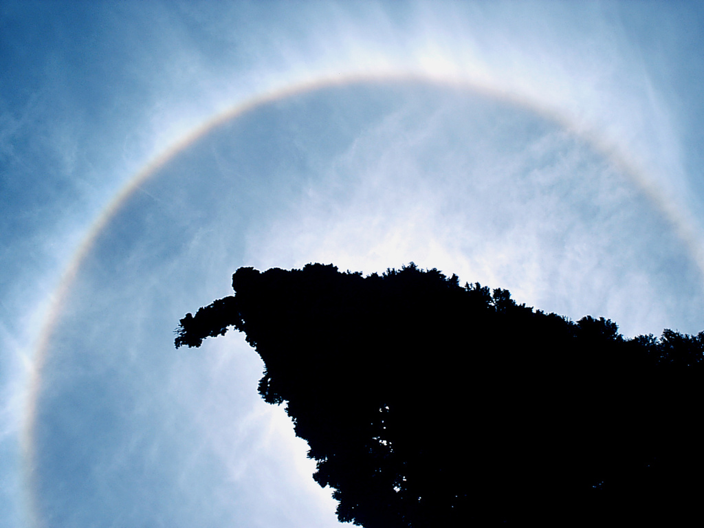 Cirrostratus clouds being illuminated by the sun and forming a halo